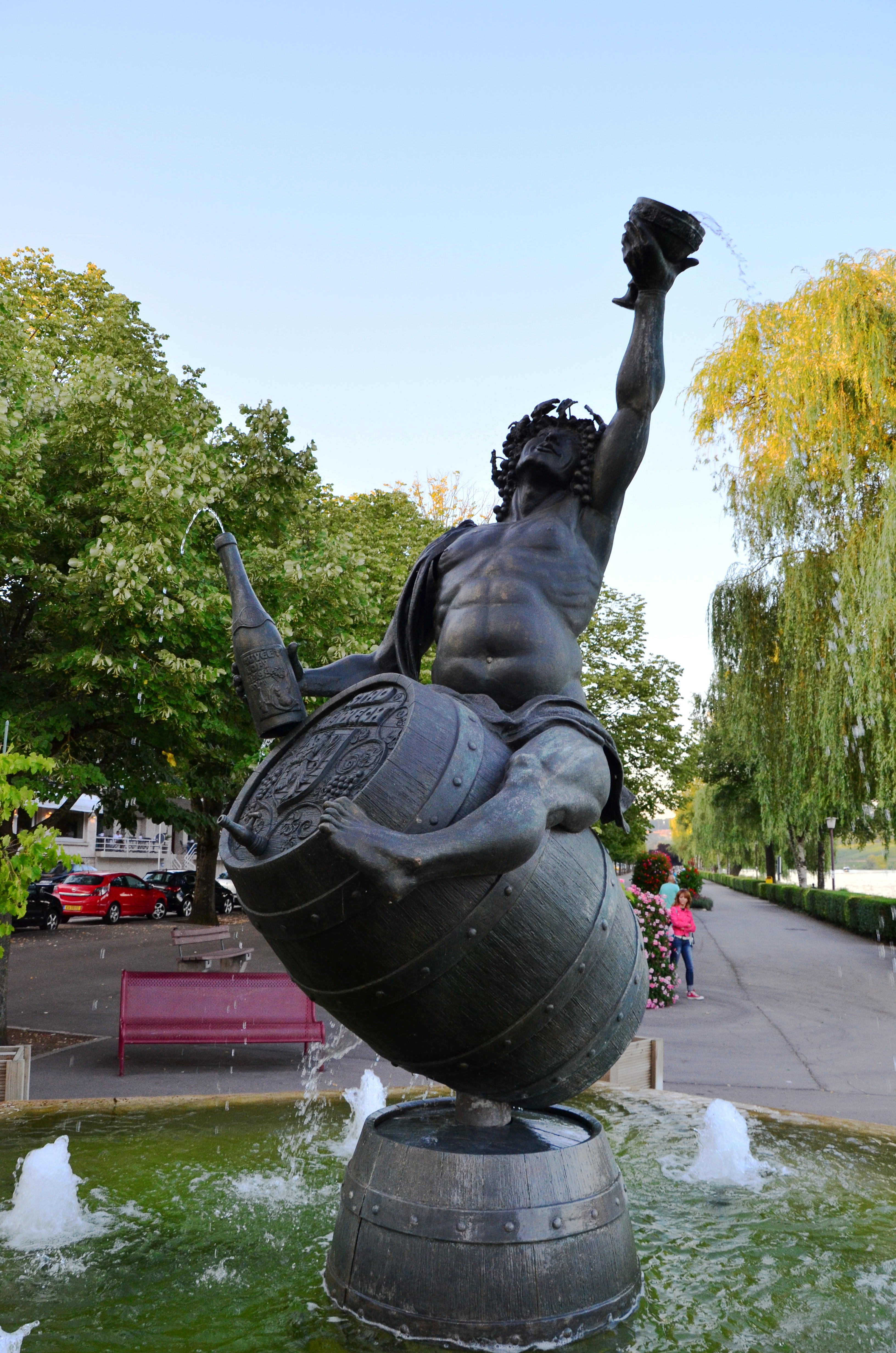 Statue of Dionysus in Remich Luxembourg